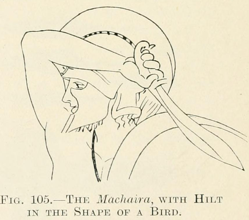 Greek soldier wielding makhaira sword